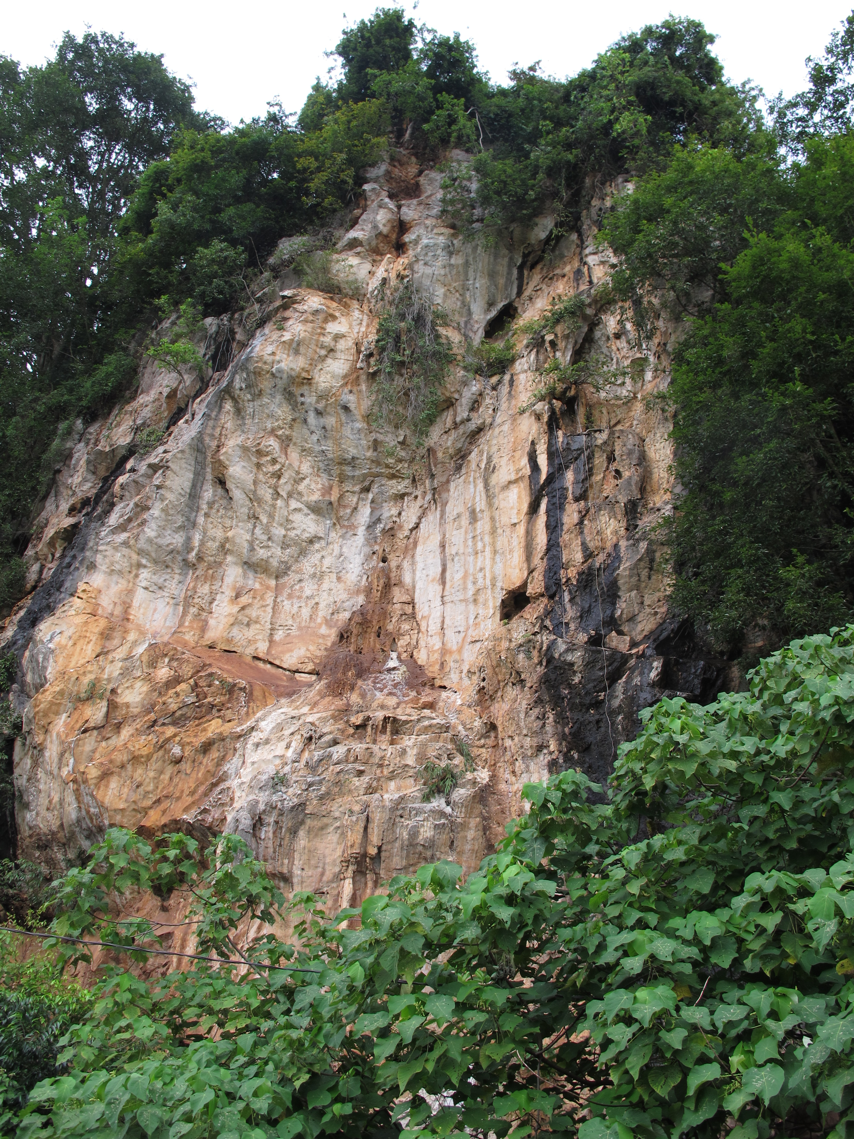 Breeding place of the Black-thighed falconet (Microhierax fringillarius) on a karst rock in the city of Ipoh in the state of Perak in Malaysia.